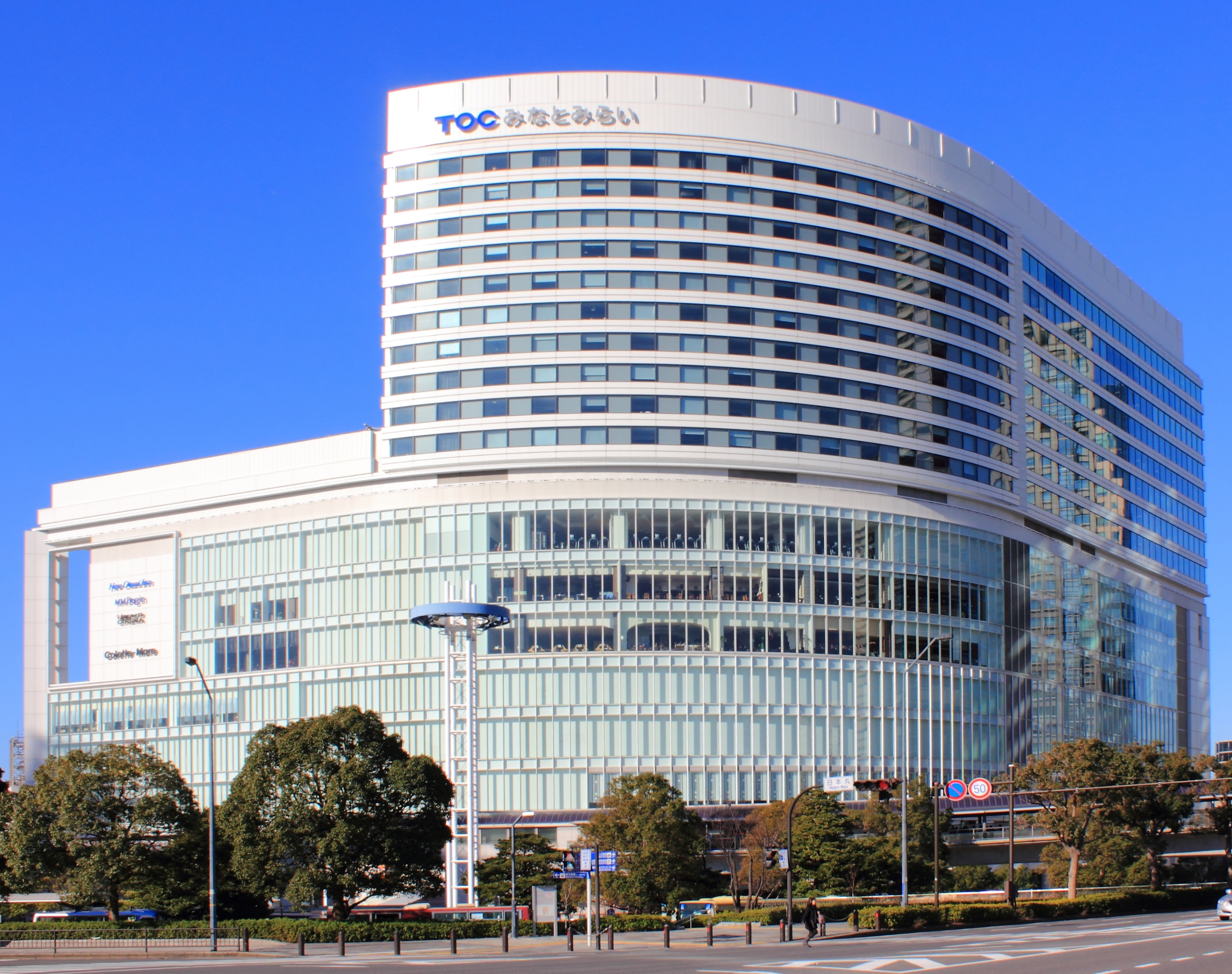 The TOC Minato Mirai building adjacent to Sakuragicho Station in Yokohama, Japan